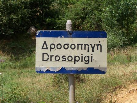 Taken in Greece Jun 21 ,2005